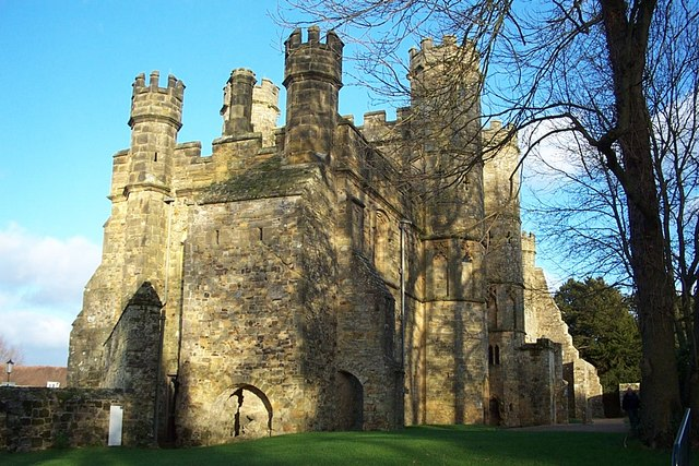 Photograph of the main gatehouse, Battle Abbey, Battle, Sussex.